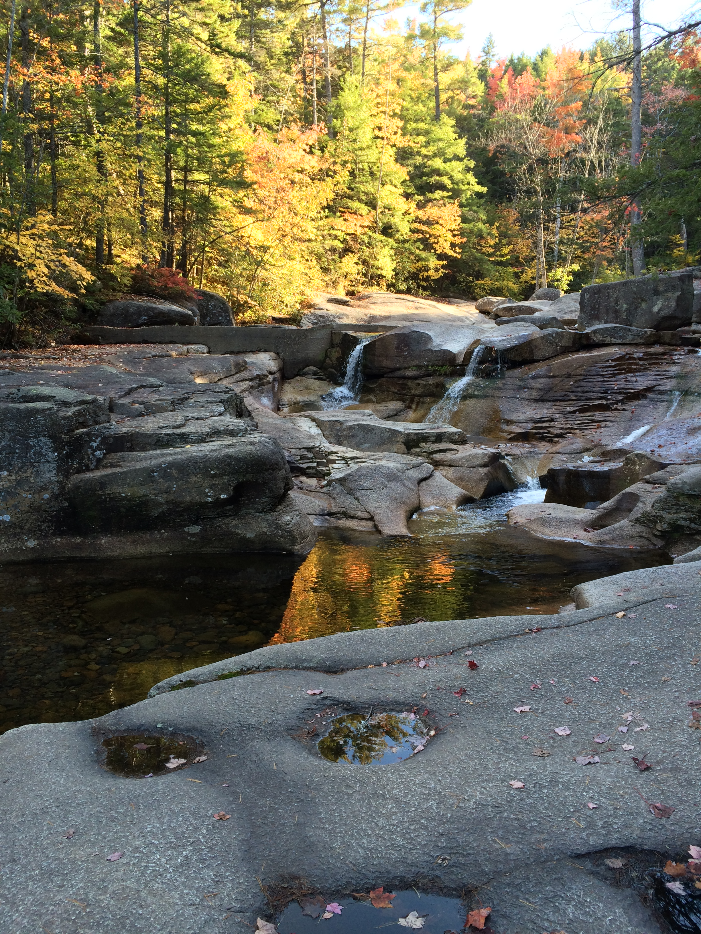 Fall 2014